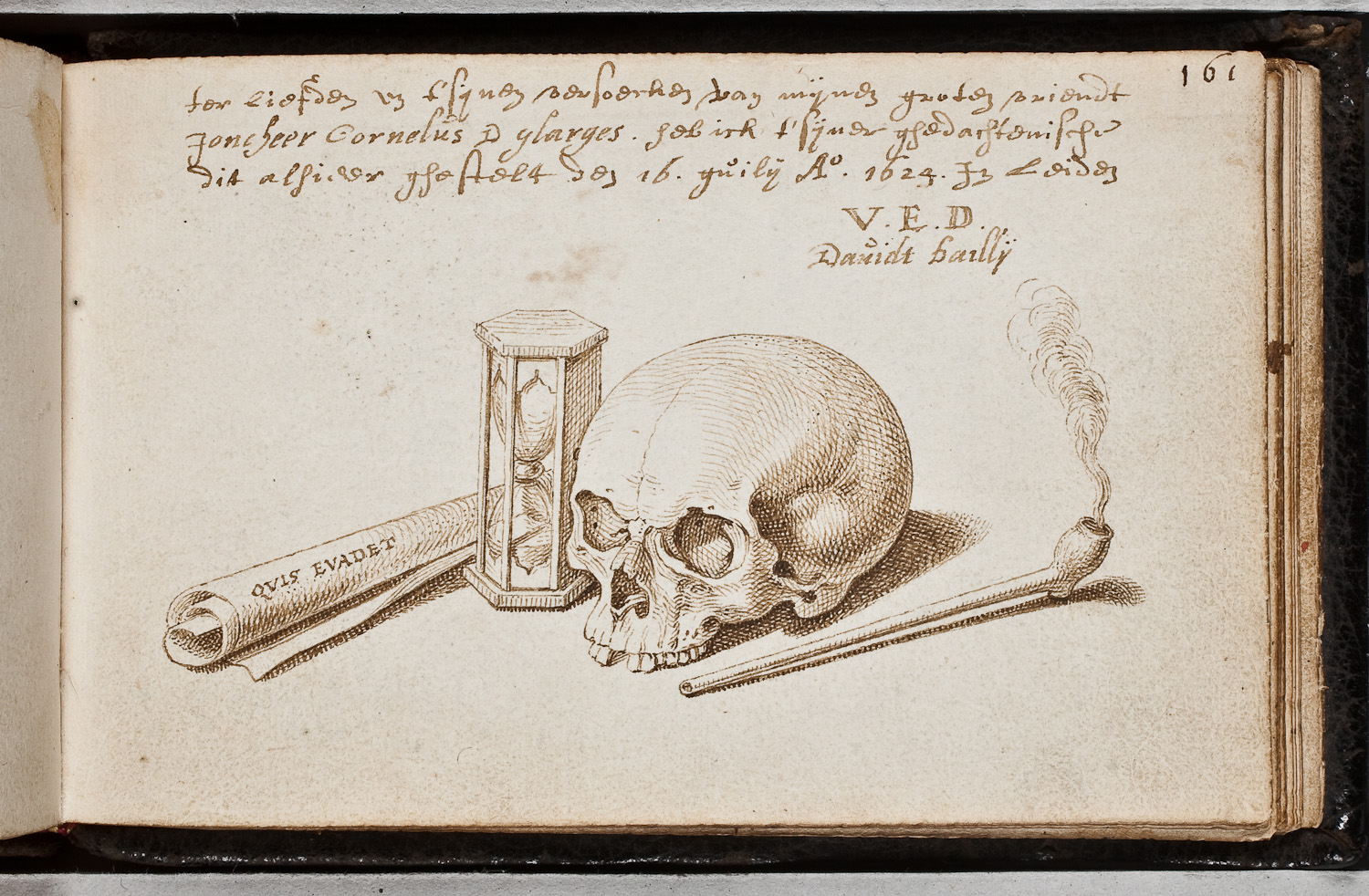 Album amicorum van Cornelis de Glarges, f. 161r: Davidt Bailly, Leiden, 16 juli 1624 Zie ook: Image uploaded on 02-10-2013 from the Flickr stream of the Royal Library, The Hague (Koninklijke Bibliotheek, KB, national library of the Netherlands)